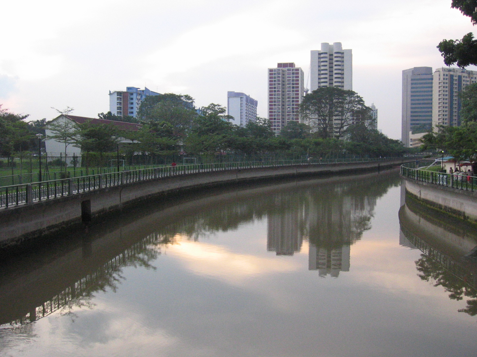 Alexandra Canal, Singapore. Taken by Terence Ong in November 2006.